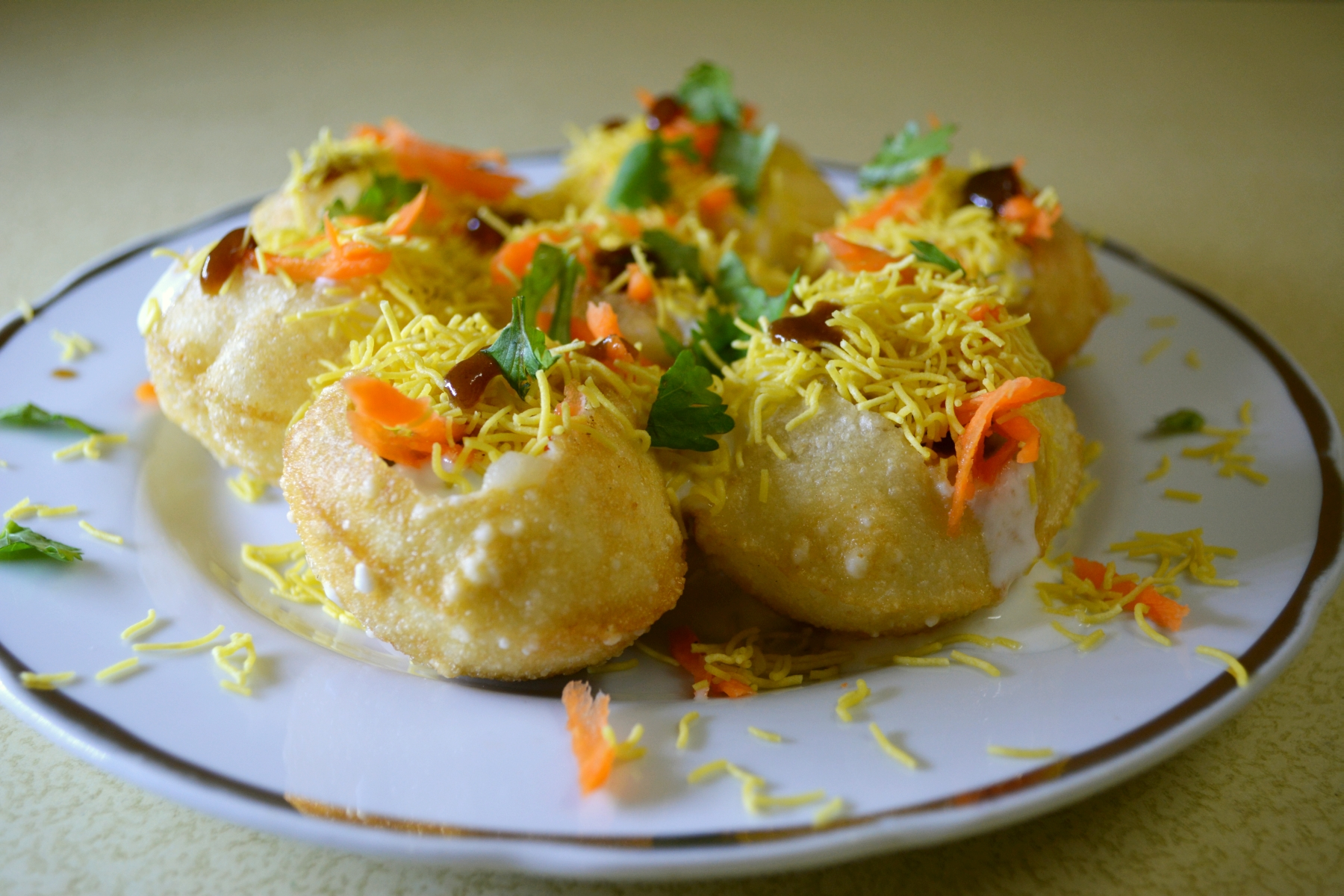 Dahi puri is a variation of Pani puri in which the filling is mostly curd along with potatoes, spices and date-jaggery syrup